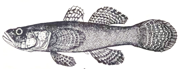 Dusky sleeper, Eleotris fusca (Forster, 1801)